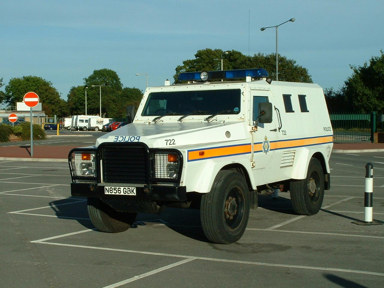 Protected Tactica Vehicle of The MOD Police